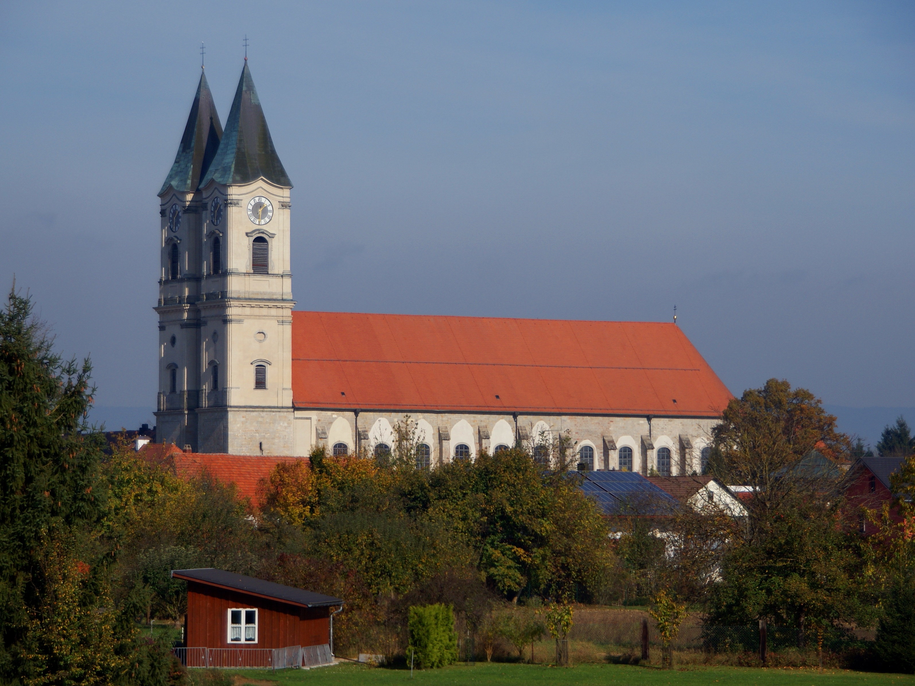 Church of Niederaltaich Abbey